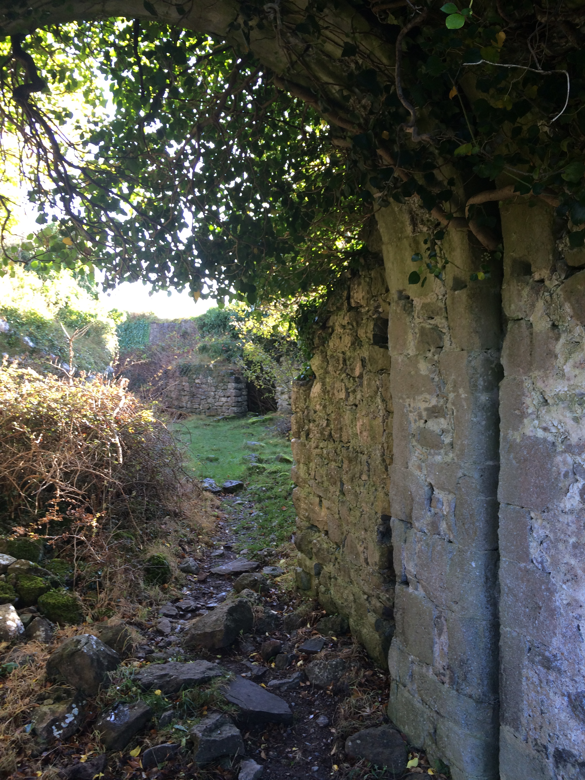 Rindoon 28-10-2015 11